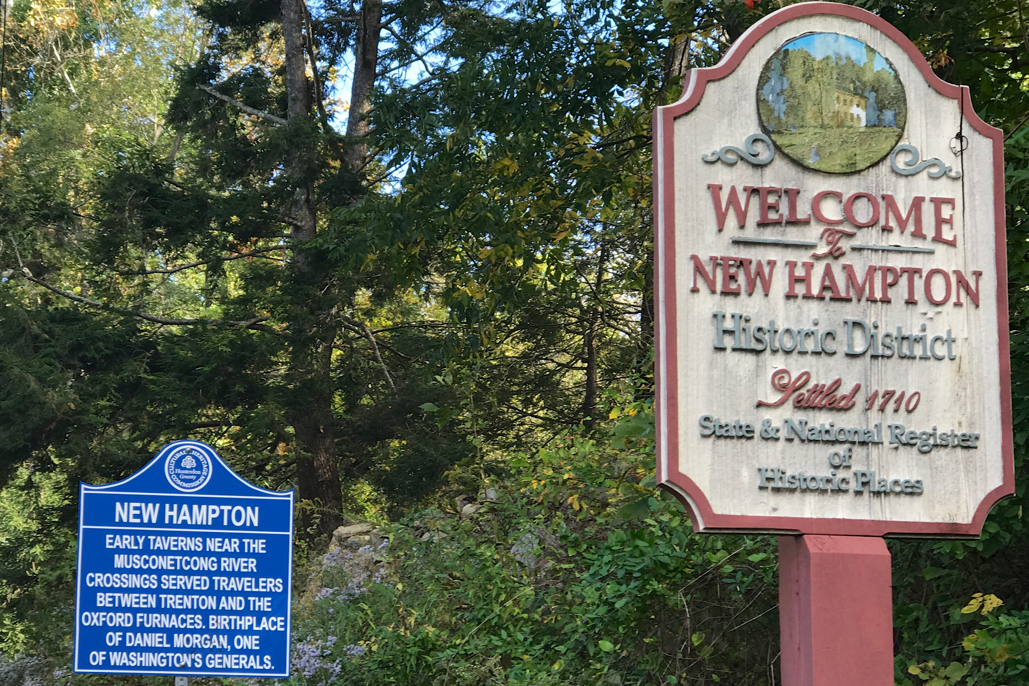 Historical information signs about New Hampton, New Jersey and the New Hampton Historic District.